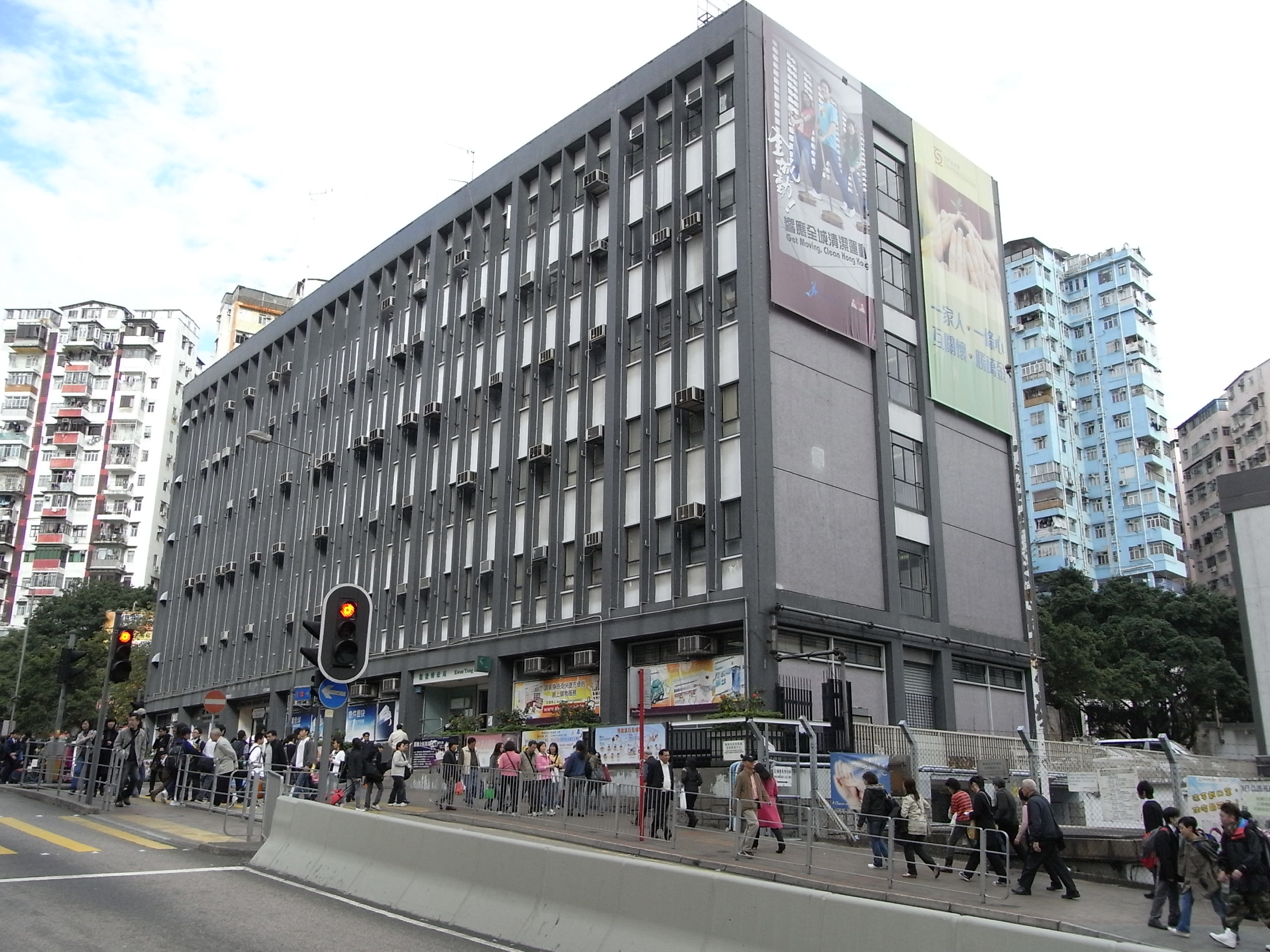 觀塘 同仁街 觀塘政府合署